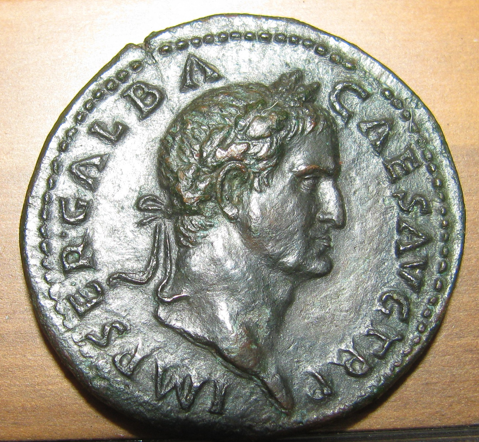 Sestertius of Galba (68-69)